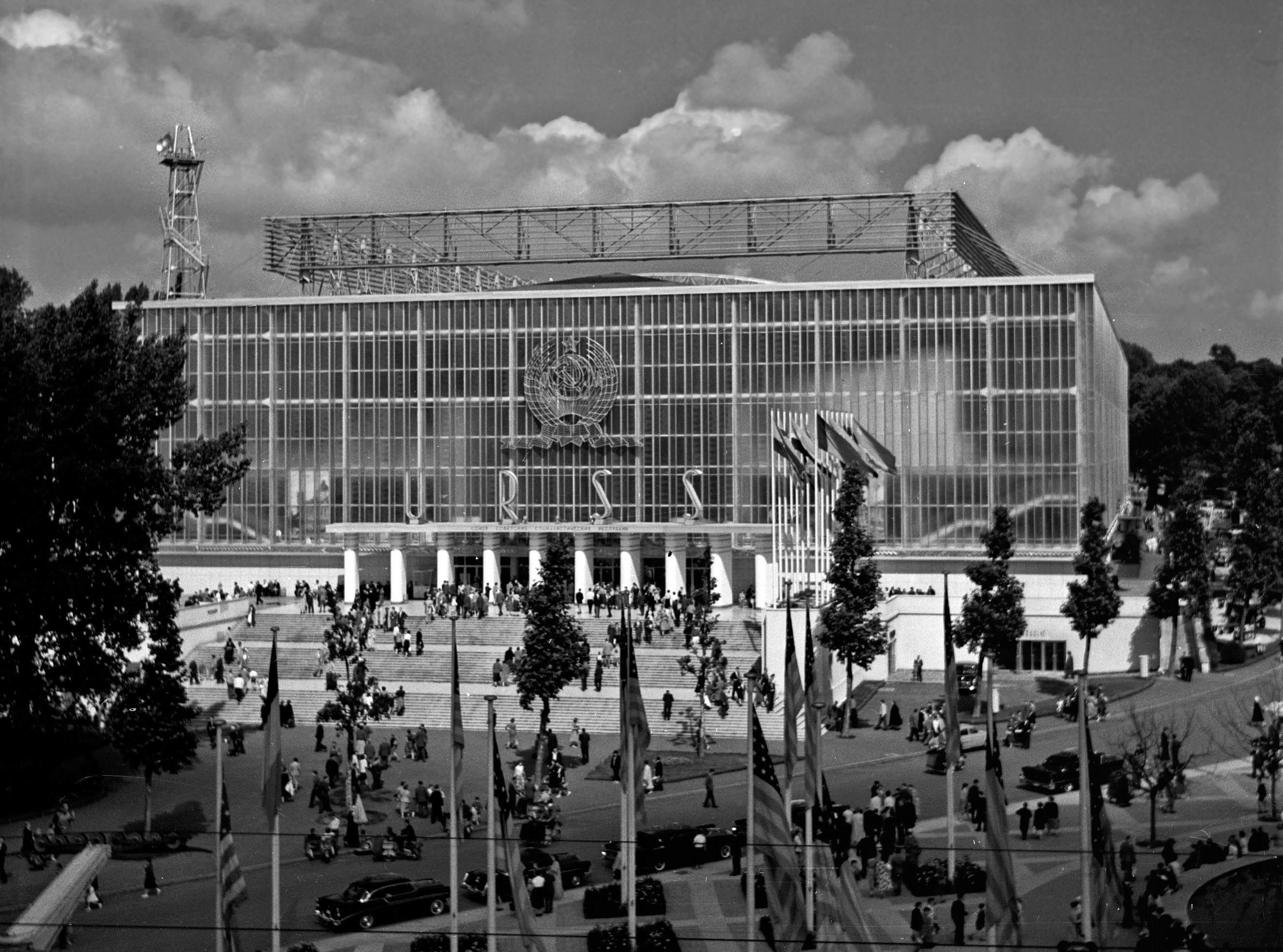 Expo 1958 building of URSS